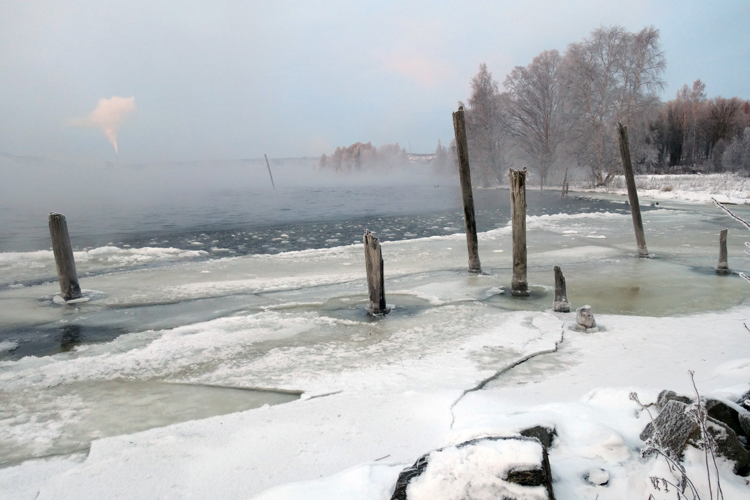 Remains of quays by the former sawmill in Järved, Örnsköldsvik Municipality, northern Sweden.